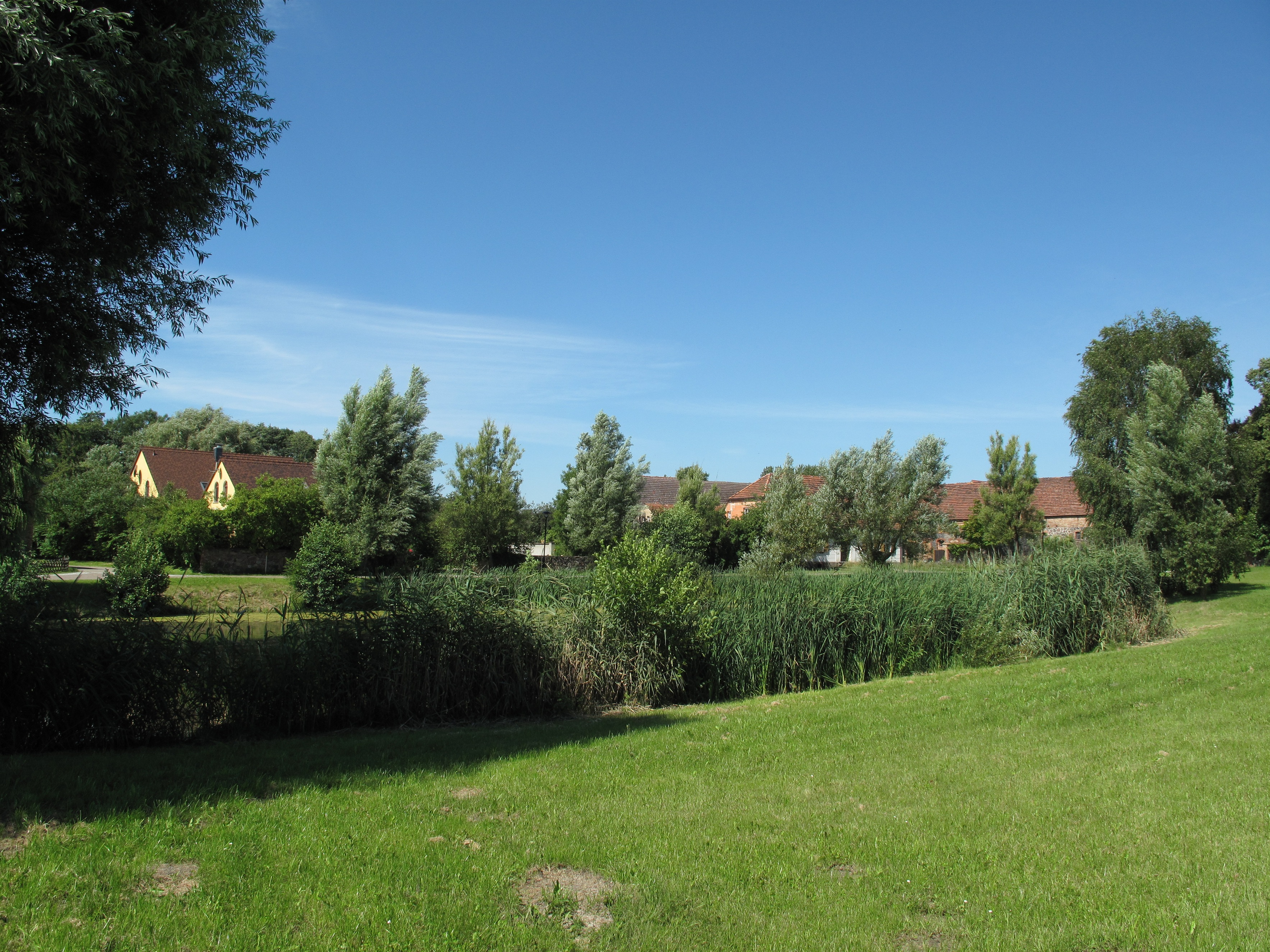 Historical village green and pond in Pritzhagen. Pritzhagen is a village of the municipality Oberbarnim in the District Märkisch-Oderland, Brandenburg, Germany. It is situated in the Märkische Schweiz Nature Park. The village green with its pond and the perimeter fieldstone-walls was extensively renovated in 2004.